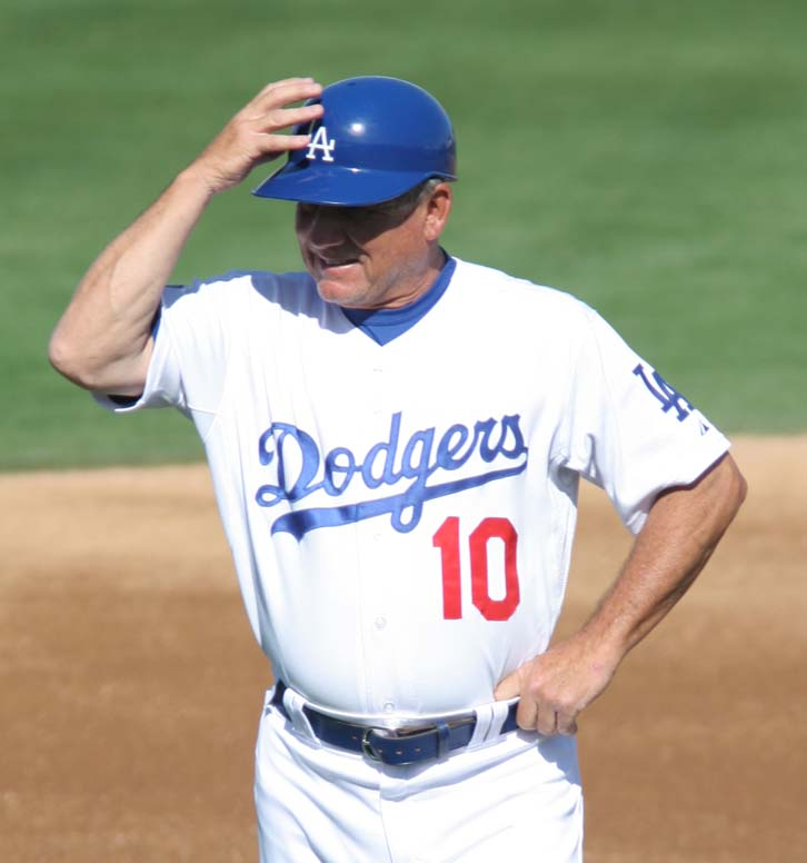 Dodgers coach Larry Bowa wearing a protective helmet days after initially refusing to wear one during games. He coached third base during a spring training game in Phoenix, March 2008. Photo by Craig Fujii 01:02, 12 May 2008 . . Craigfnp . . 726×776 (79 KB)